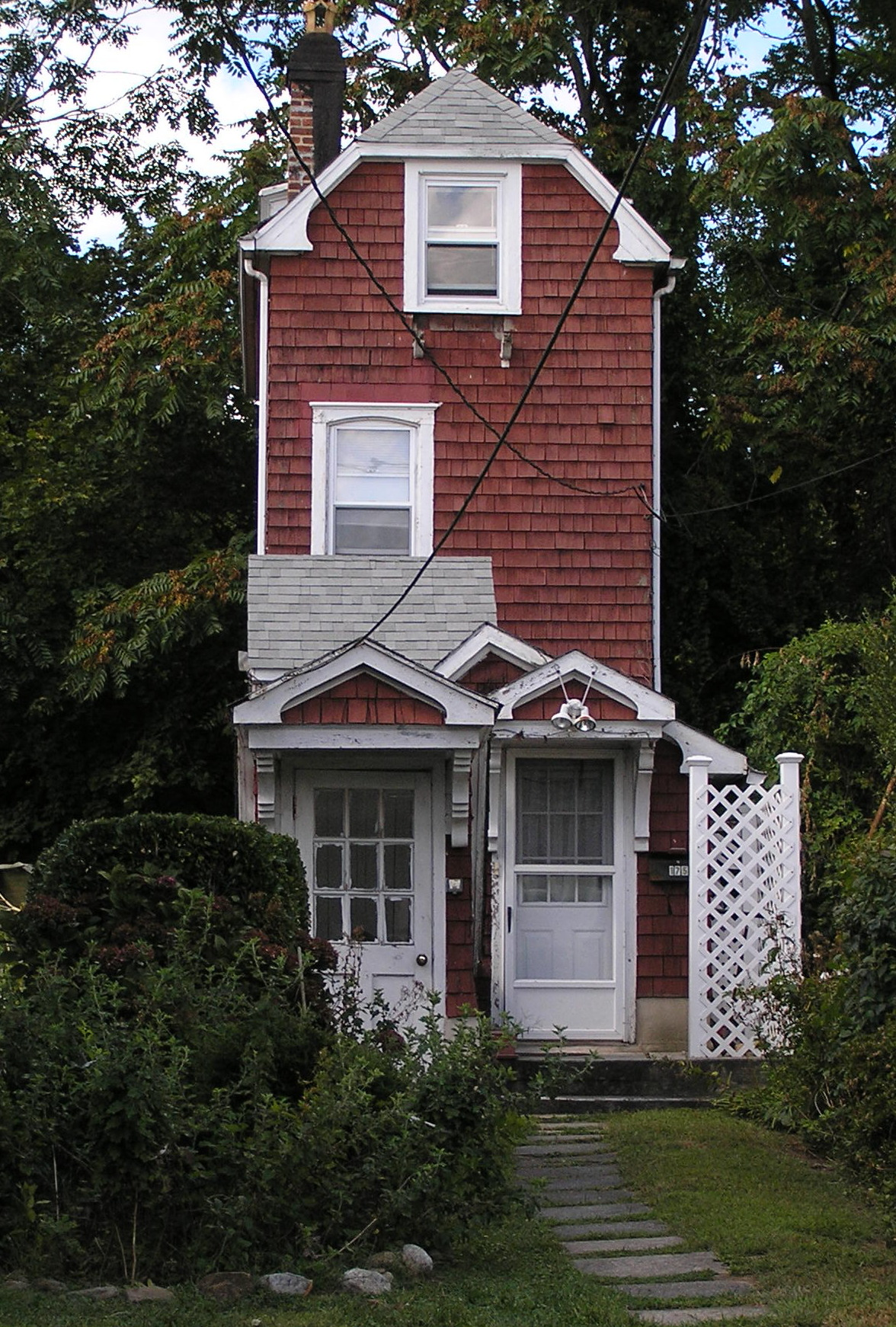 This is a photograph of the Skinny House in Mamaroneck. The house was built in 1932 and measures only 10-feet wide. Visitors come from all over the world to look at it.